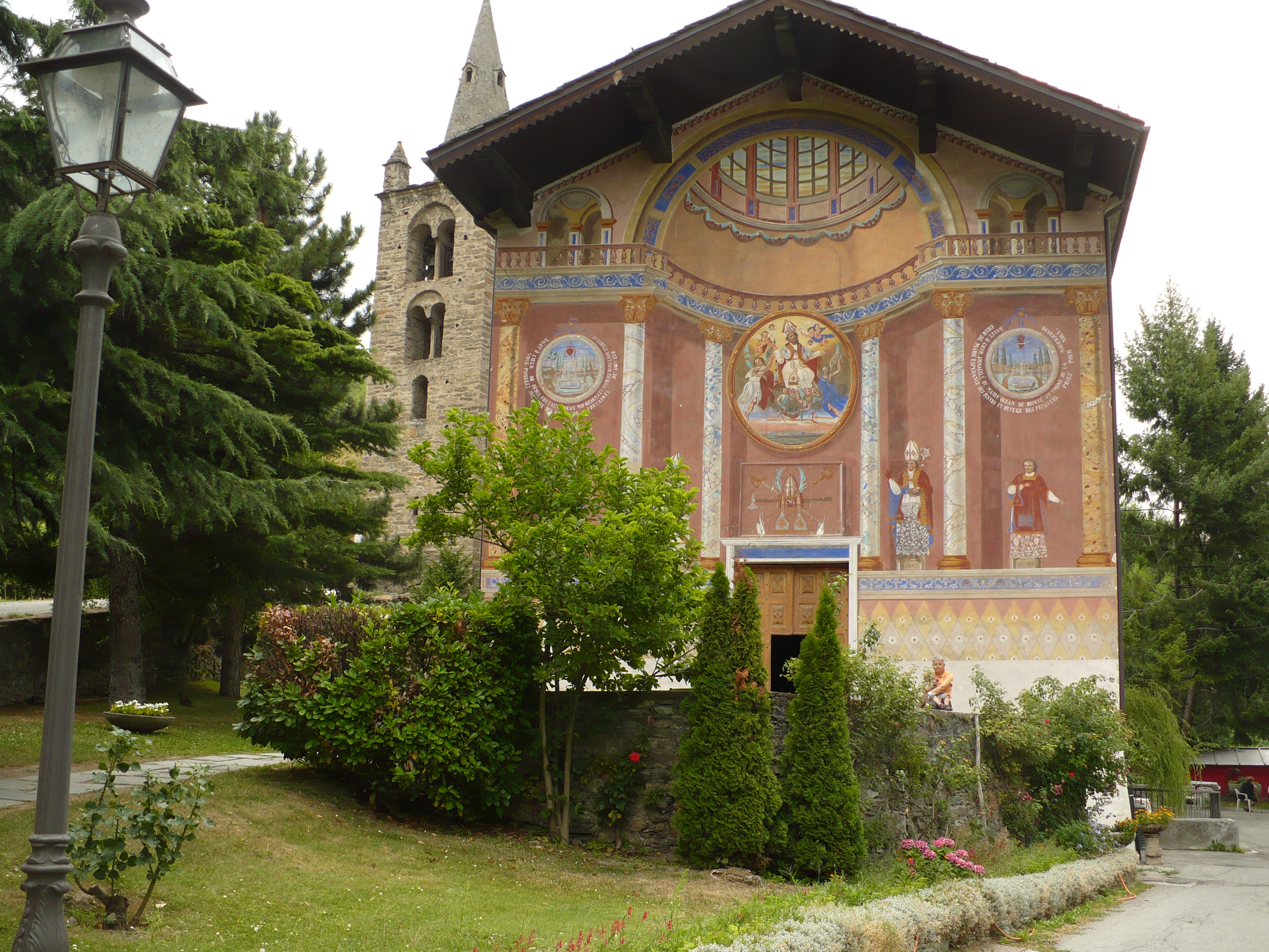 Saint-Léger Church - Aymavilles - Aosta Valley - Italy